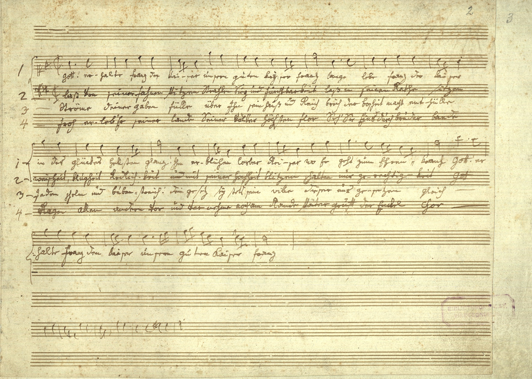 Joseph Haydn: Kaiserlied (Hob XXVIa:43). Draft of the melody with the four stanzas. Perhaps between October 1796 and January 1797.